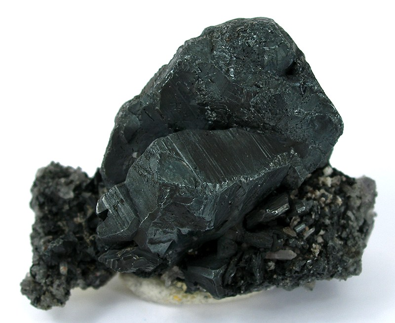 Stephanite Locality: Los Chispas Mine, Sonora, Mexico Size: small cabinet, 6.5 x 5 x 4.5 cm Stephanite A superb cluster of robust, 3-dimensional, 360-degree stephanite crystals perched upon matrix. Stephanite of this quality is rarer than any of the other major silver species collectors covet from this locality, and this piece is aesthetic as well. This specimen from the Dr Miguel Romero collection was on loan exhibition to the University of Arizona Museum for over a decade, until my purchase of this collection in 2008. It was on display in special cases at the museum, and has since been featured in the book "The Miguel Romero Collection of Mexico Minerals" which we sponsored as a special supplement book (published by the Mineralogical Record in December of 2008).